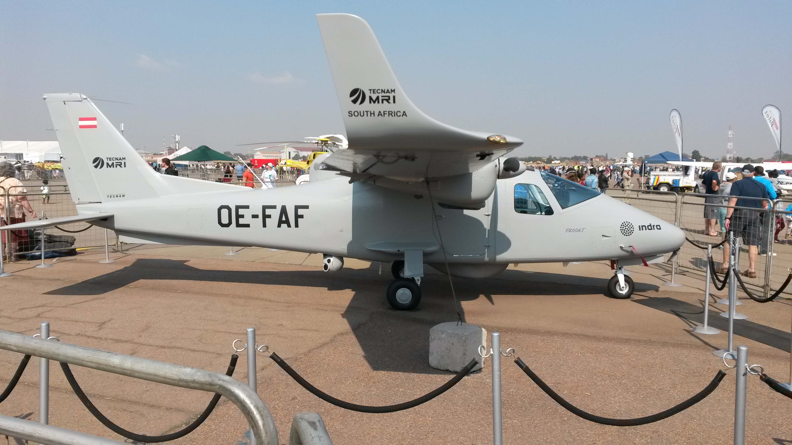 Tecnam MRI at the Africa Aerospace and Defence Expo 2014